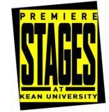 Premiere Stages Logo